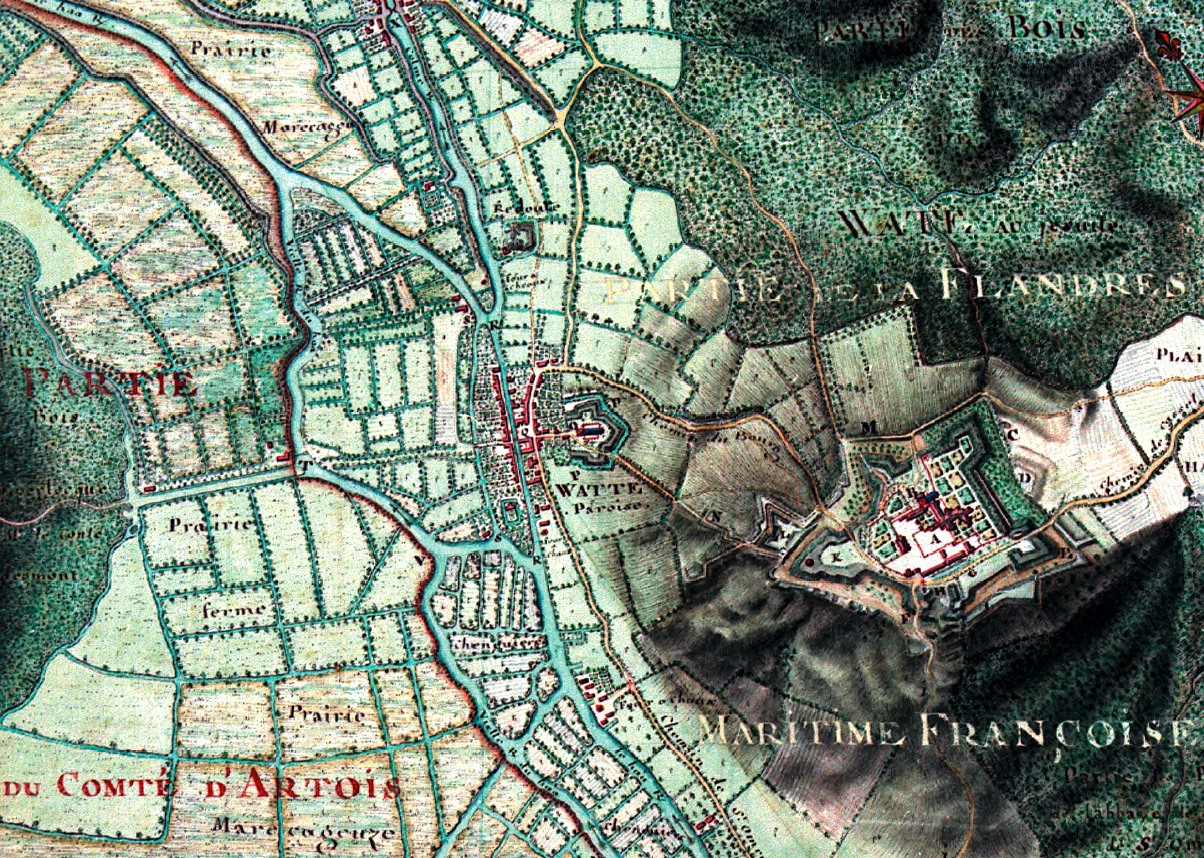 Map of Watten (1728).